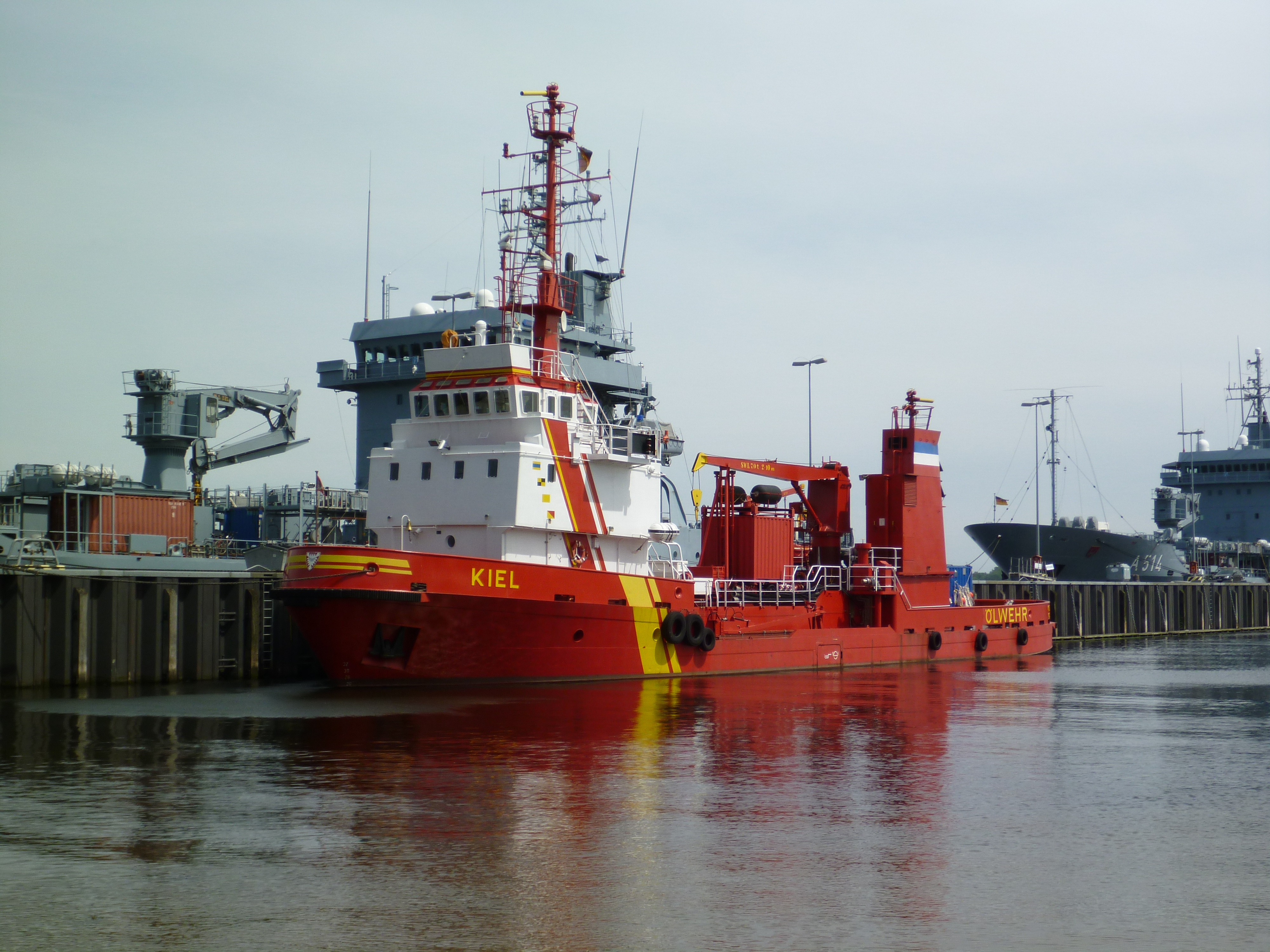 Firefighter ship Kiel at Pier at Hindenburgufer in Kiel